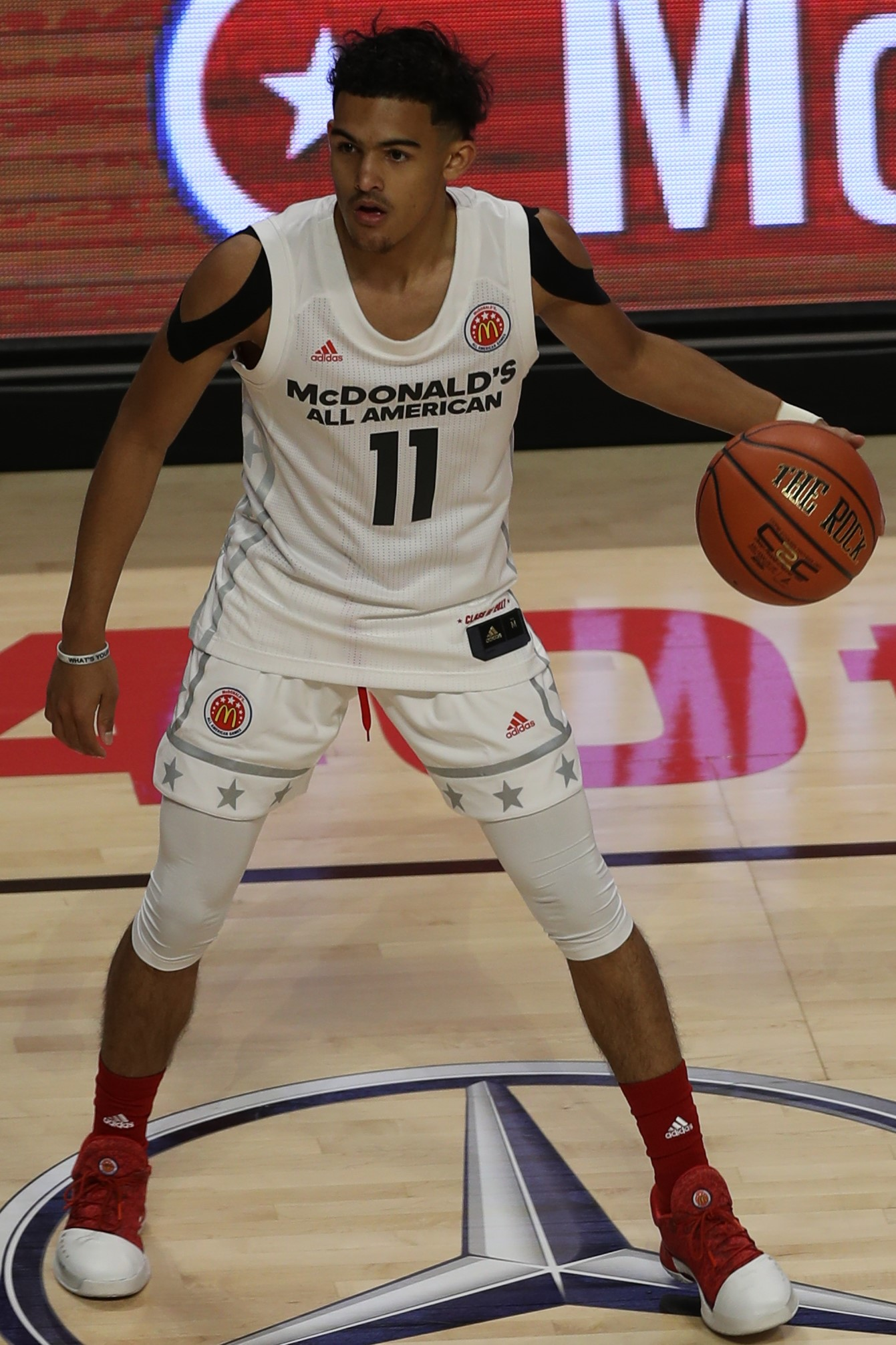 Trae Young at the w:2017 McDonald's All-American Boys Game